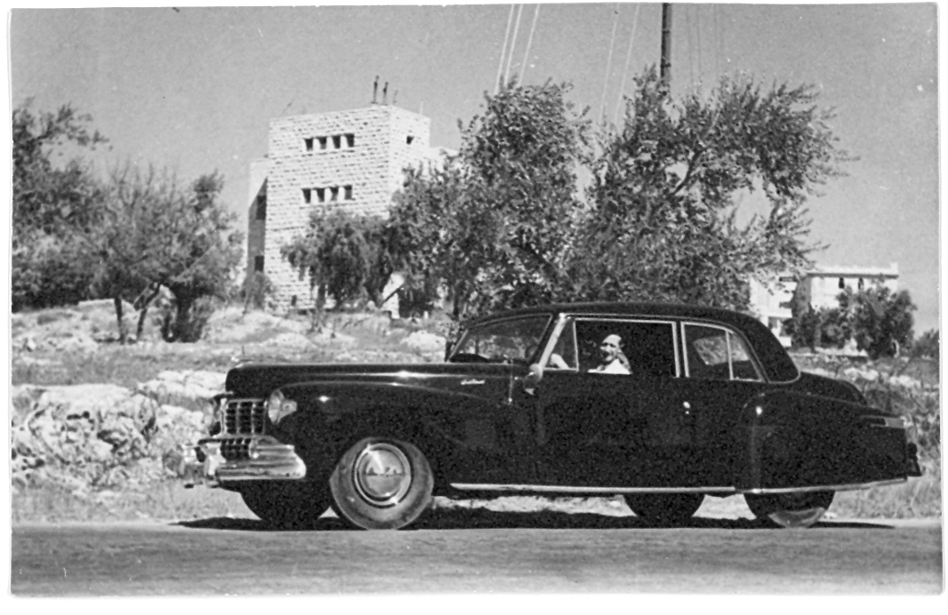 Lincoln Continental in Jerusalem, Transport in Israel